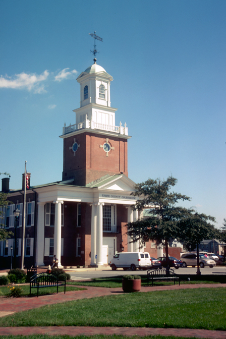 Sussex County Courthouse in Georgetown, Delaware, United States, built in 1914. Courthouse is located on southwestern side of the Circle in downtown Georgetown.